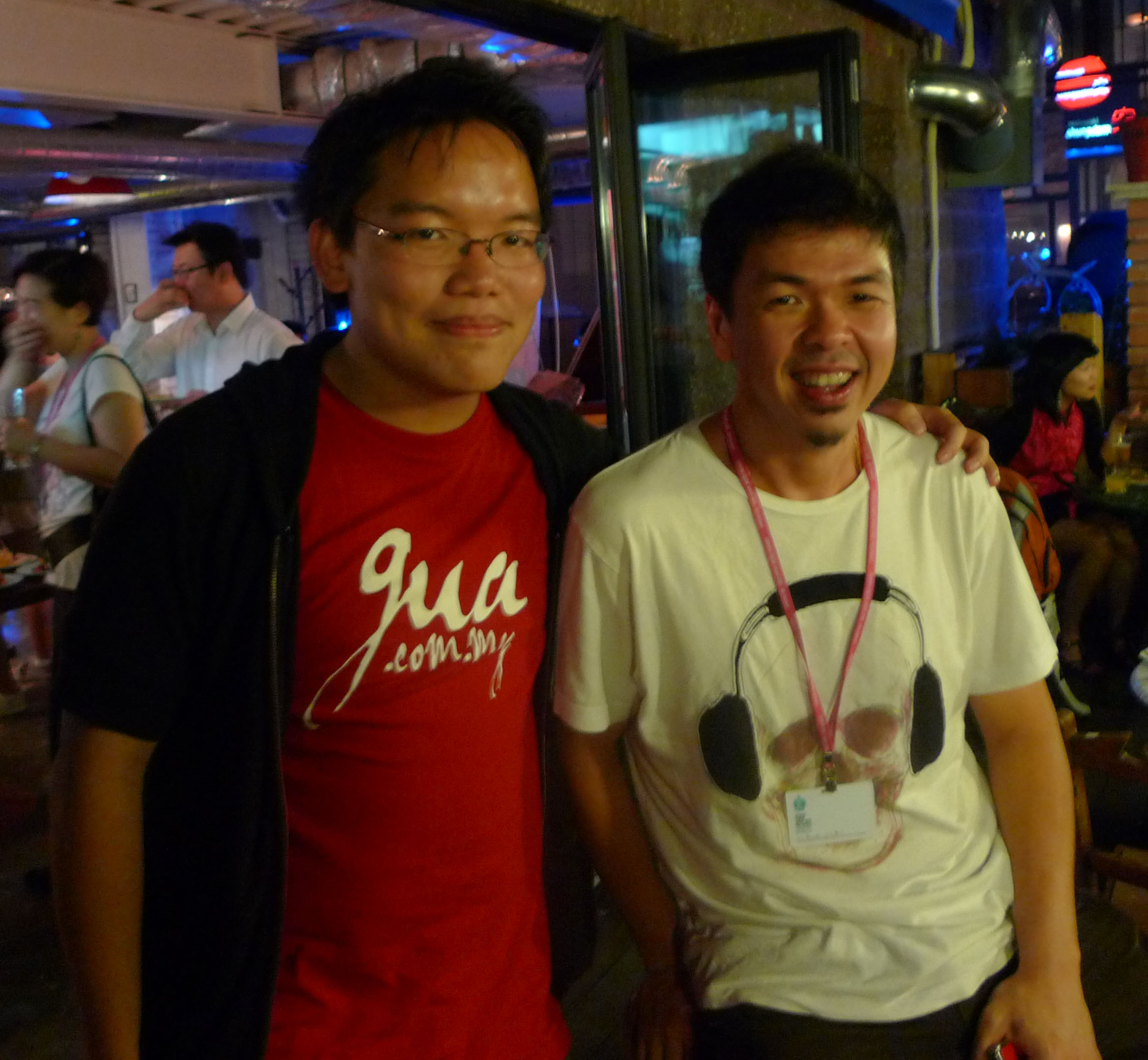 Cropped version of File:Edmund-Yeo-and-Sherman-Ong.jpg